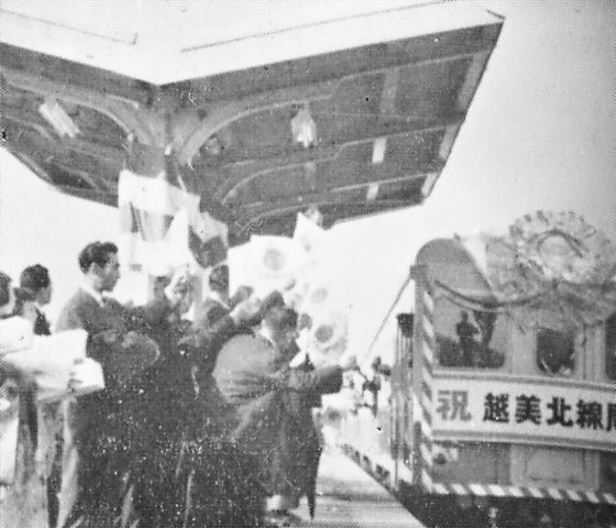 Etsumi-hoku line opening